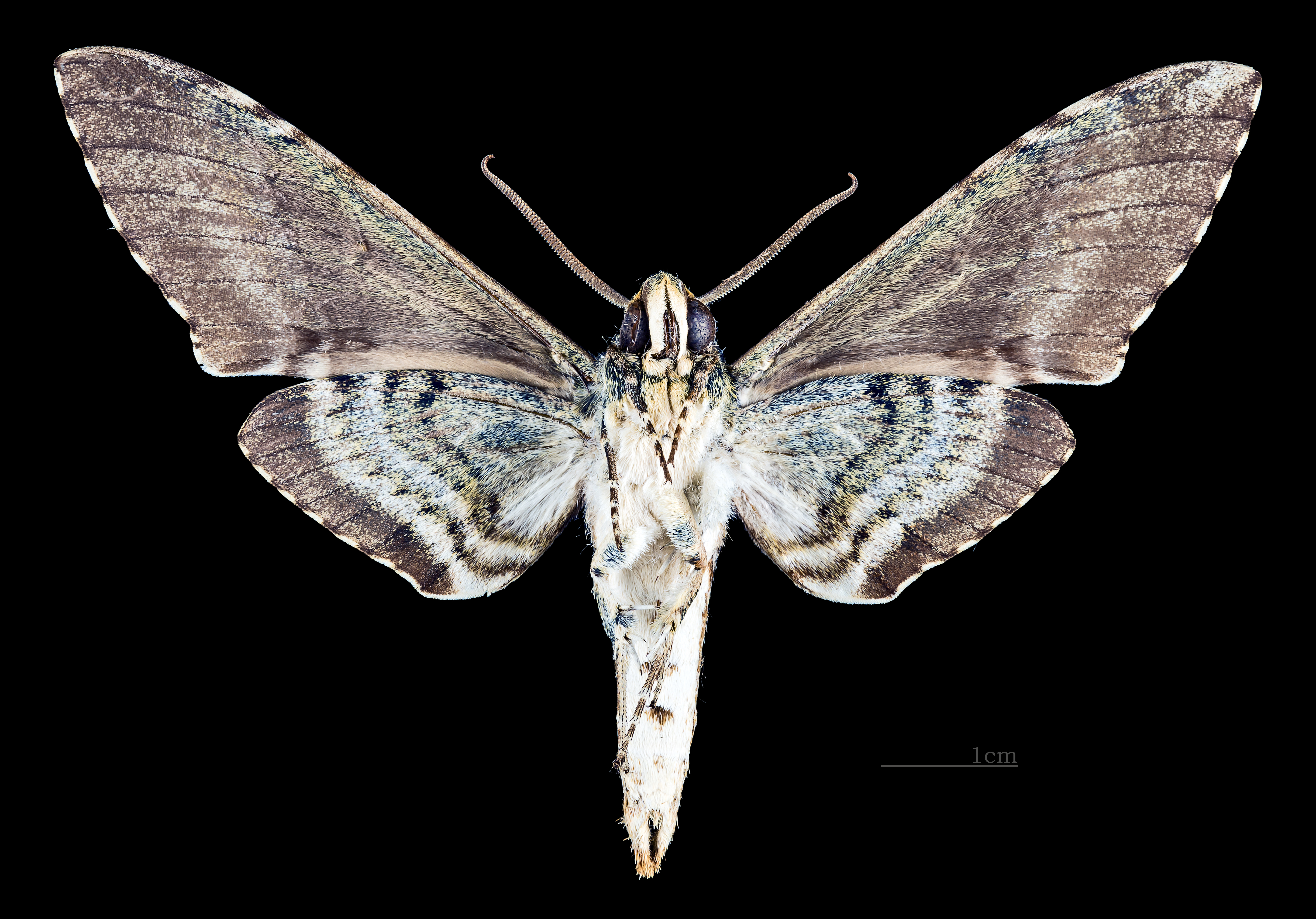 Manduca corallina - △ Ventral side Collection of the Mathematician Laurent Schwartz